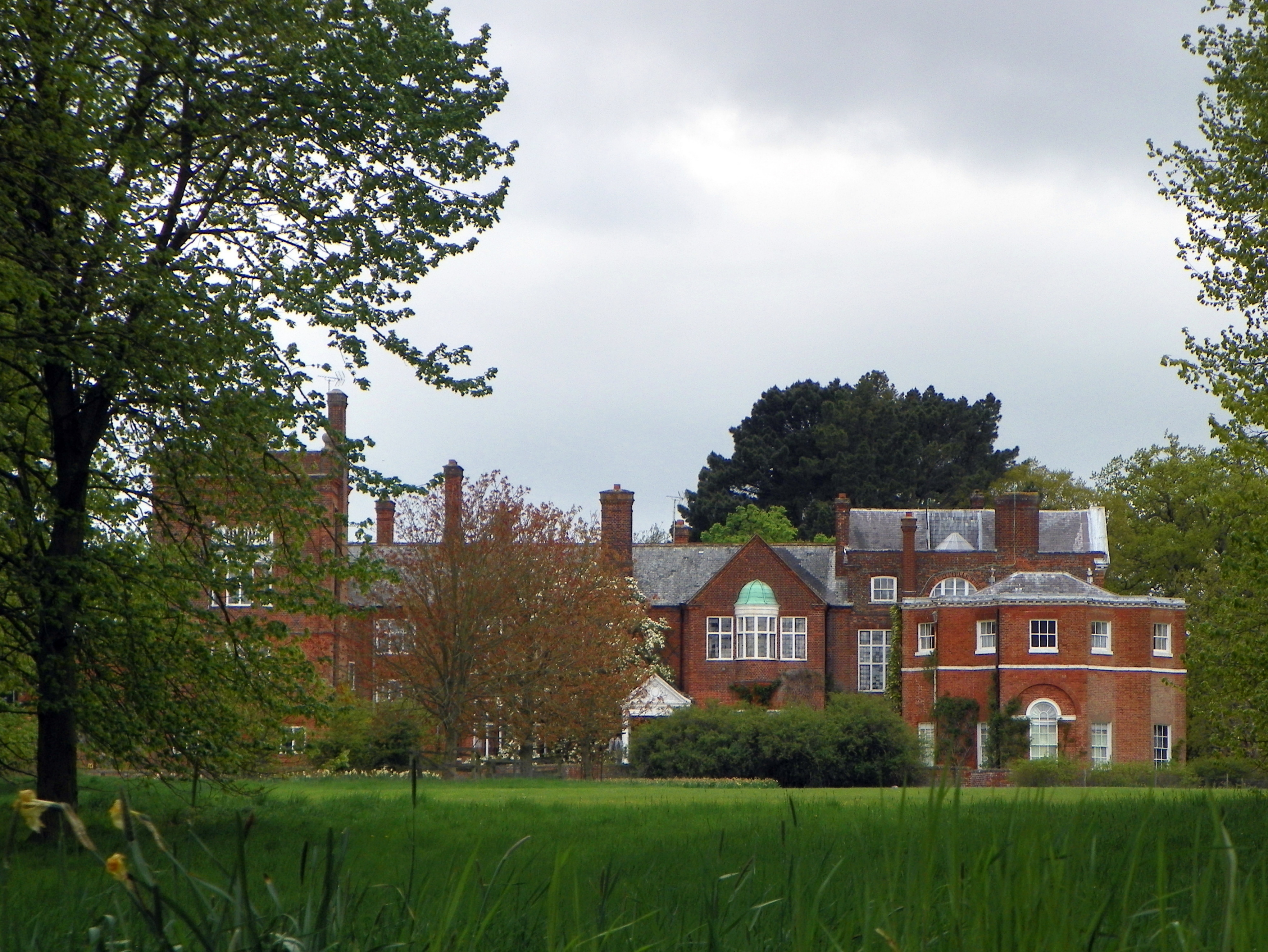 A distant view of St Paul's Walden Bury, St Paul's Walden, Hertfordshire, England. This house is owned by the Bowes-Lyon family, and was a childhood home of Queen Elizabeth, The Queen Mother, her likely place of birth and where she accepted the proposal of marriage from Prince Albert, later King George VI.